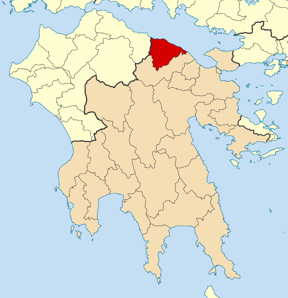 Locator map for Xylokastro-Evrostini municipality in Greek region Peloponnese (2011)